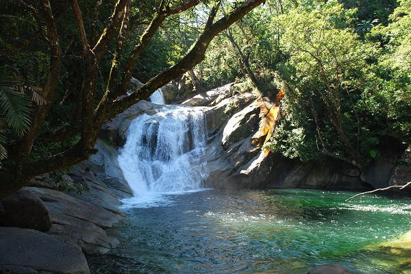 Josephine Falls (Wooroonooran National Park, Queensland, Australia)